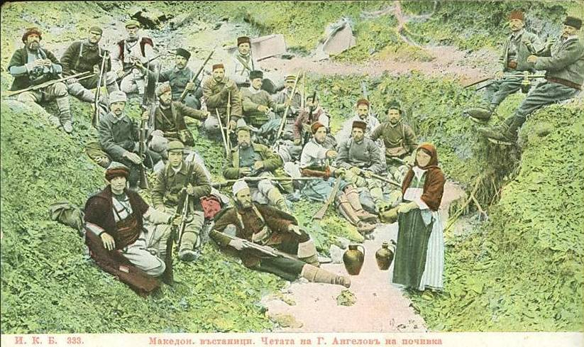 Bulgarian revolutionary G. Angelov and his cheta